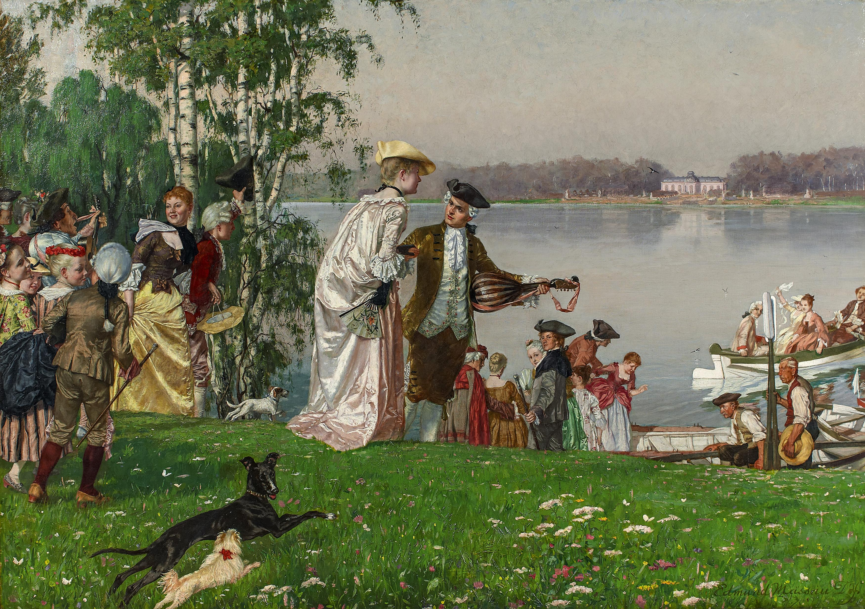 A High Day in Spring by Edmund Massau, oil on canvas, 124 x 175cm.